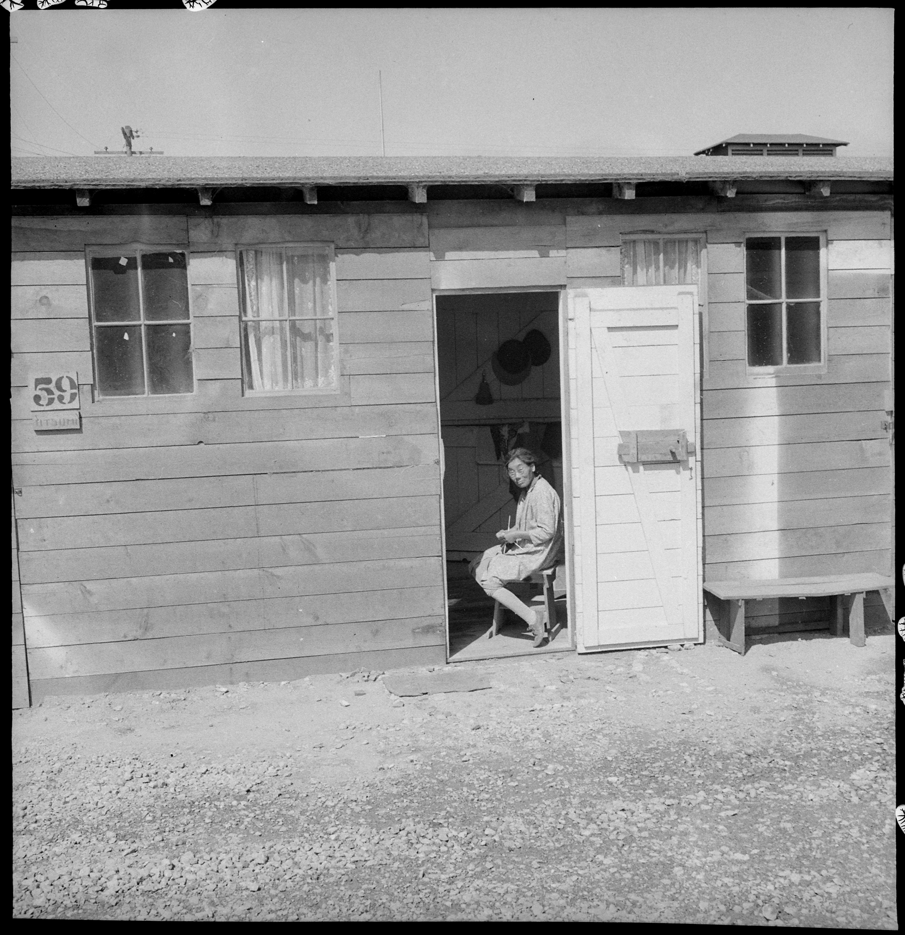 Scope and content: The full caption for this photograph reads: San Bruno, California. Barrack home in one of the long lines of converted horse stalls. Each family unit consists of two small rooms- the rear room without outside door or window.